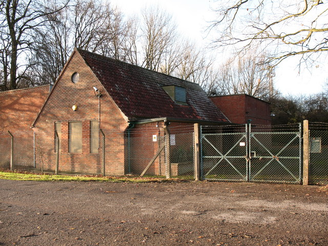 In the event of hostilities breaking out.... Head for your local nuclear shelter. This is the entrance to such a cold war relic just off the A19.